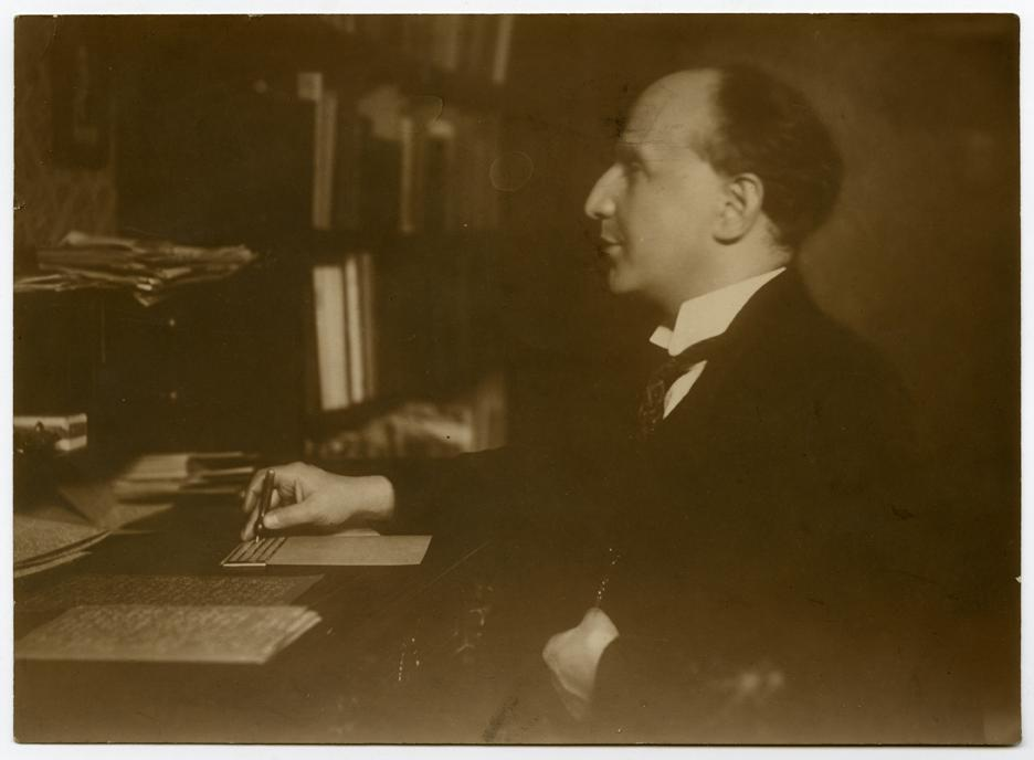 Oskar Baum 1920ies